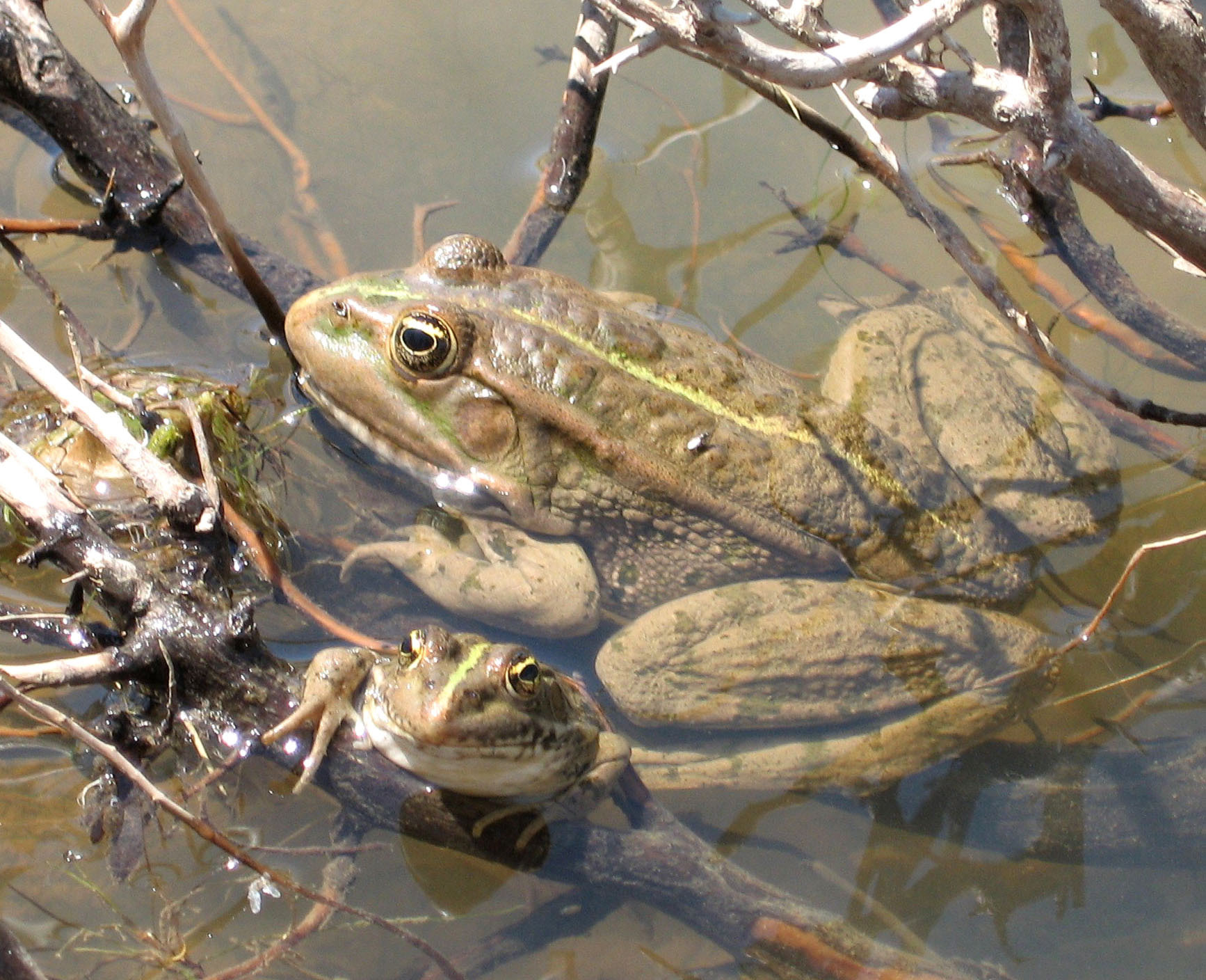 Marsh Frogs from KrK/Croatia.